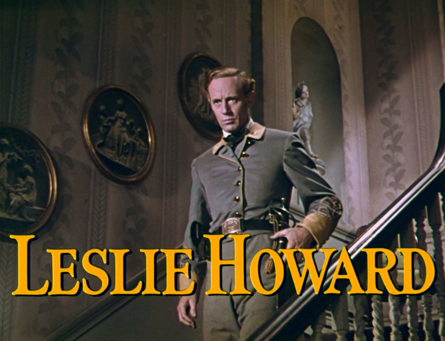 Cropped screenshot of Leslie Howard from the trailer for the film Gone with the Wind